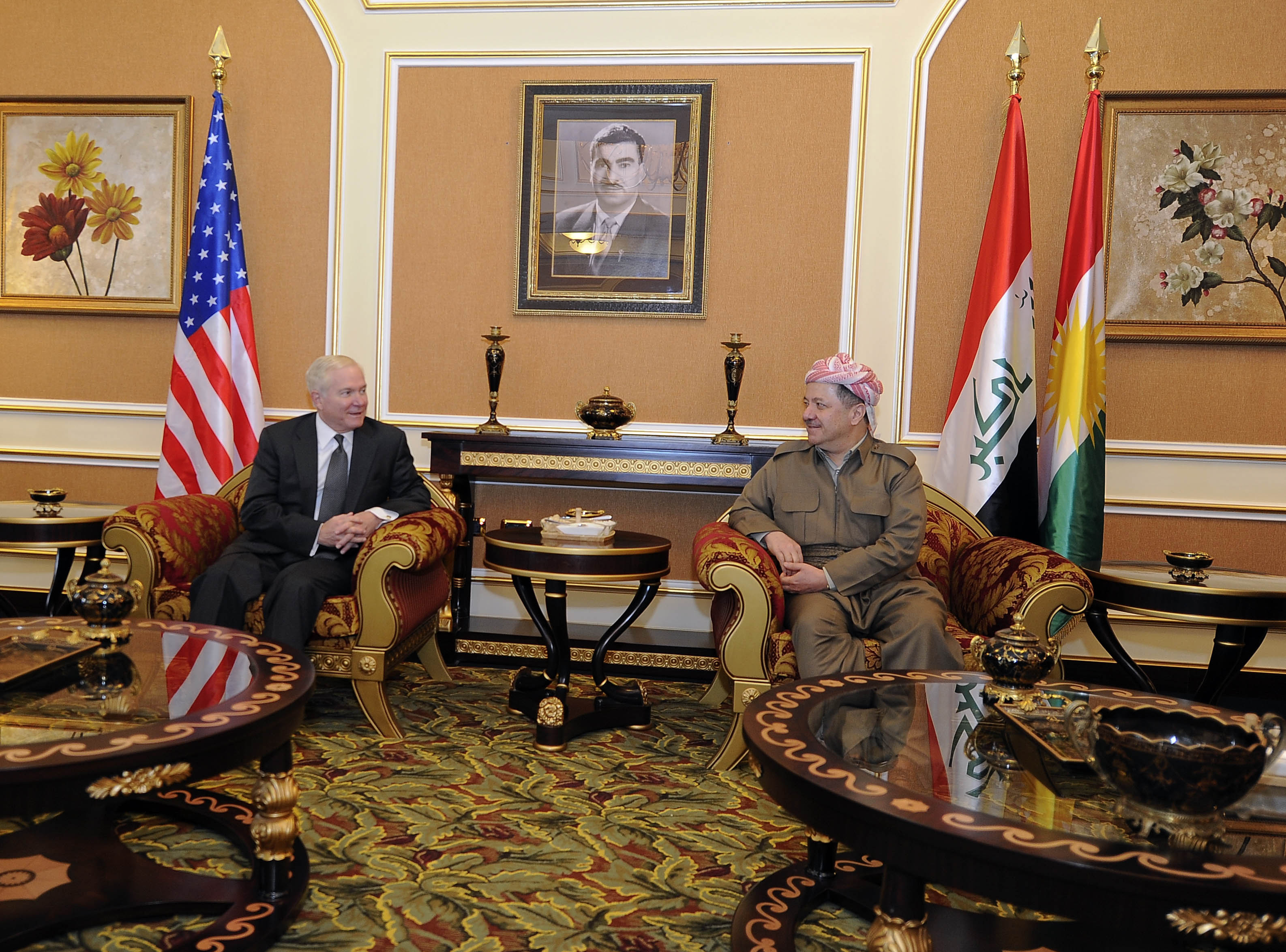 Secretary of Defense Robert M. Gates talks with Kurdistan Regional Government President Barzani after arriving in Irbil, Iraq, during a trip on April 8, 2011. Gates met with U.S. and Iraqi leaders, troops and held discussions while taking photos and giving out coins to deployed members during his stay in Iraq.